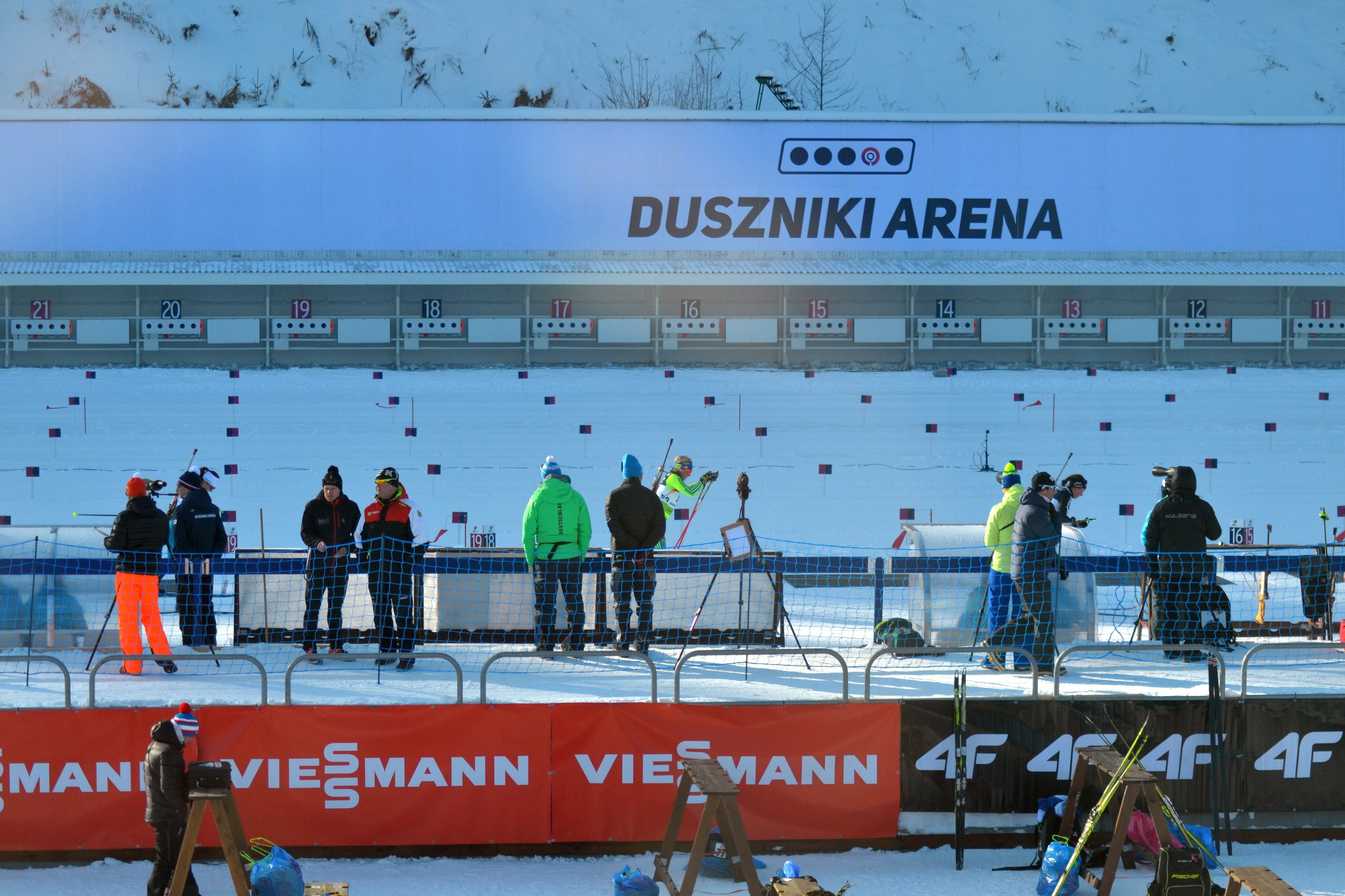 Open European Championships Biathlon 2017, Women's Pursuit race.